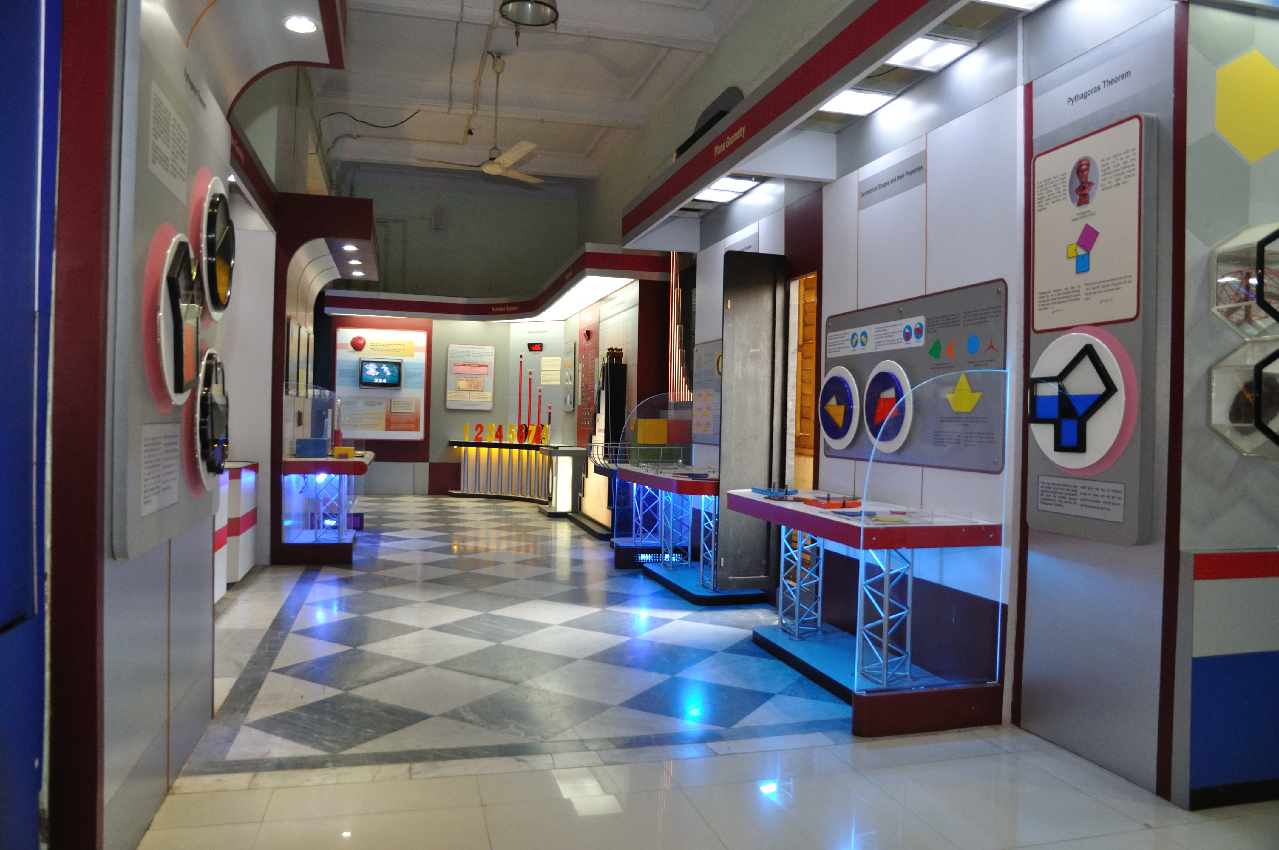 The 'Mathematics' gallery of BITM (Inaugurated on 8 May, 2010) that spread over an area of 300 sq.m with about 54 exhibits, the thematic canvas of the gallery includes a brief history of numbers, number theory, positional number systems highlighting India’s seminal contribution in their development, basic arithmetical operations, geometry of plane and curved surfaces, solid geometry & conics, mathematical functions, probability & statistics, the basic ideas of calculus, mathematics in nature, and a variety of mathematical kits and brain-teasers for kids. A ‘Math Demo Corner’ with facilities for conducting a class session on mathematics by the accompanying school teachers, and a ‘Children’s Activity Area’ add to the attraction of the gallery.